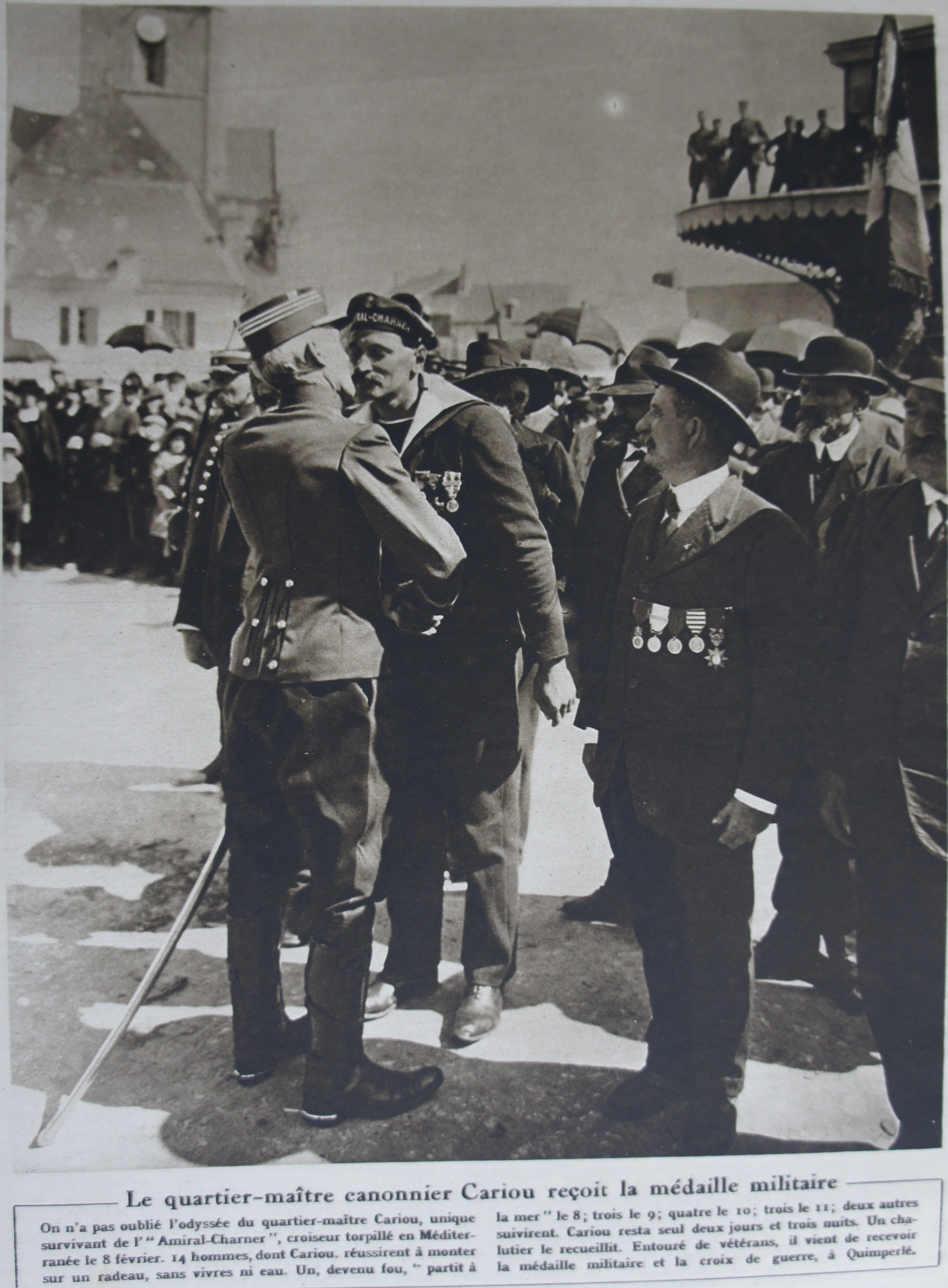 extrait du journal "le miroir".